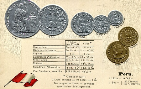 These postcards were designed by Hugo Semmler, a German businessman for cambists (people who exchange money 💴) to base their exchange courses on. After Hugo Semmler other people began producing these cards as well as they became highly popular souvenirs for tourists.